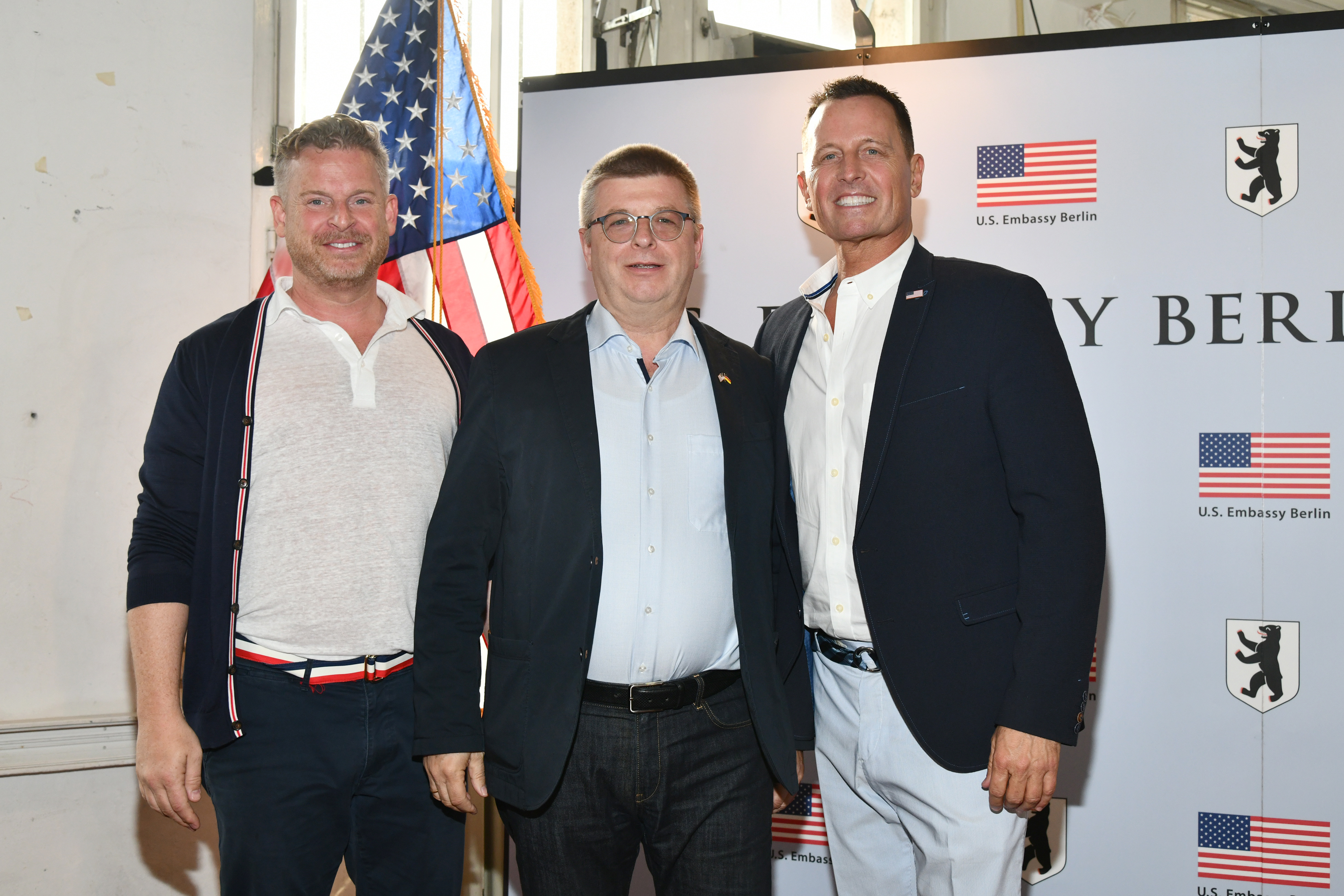 Matt Lashey, Thomas Haldenwang, and Richard Grenell, 4th of July 2019 in Berlin